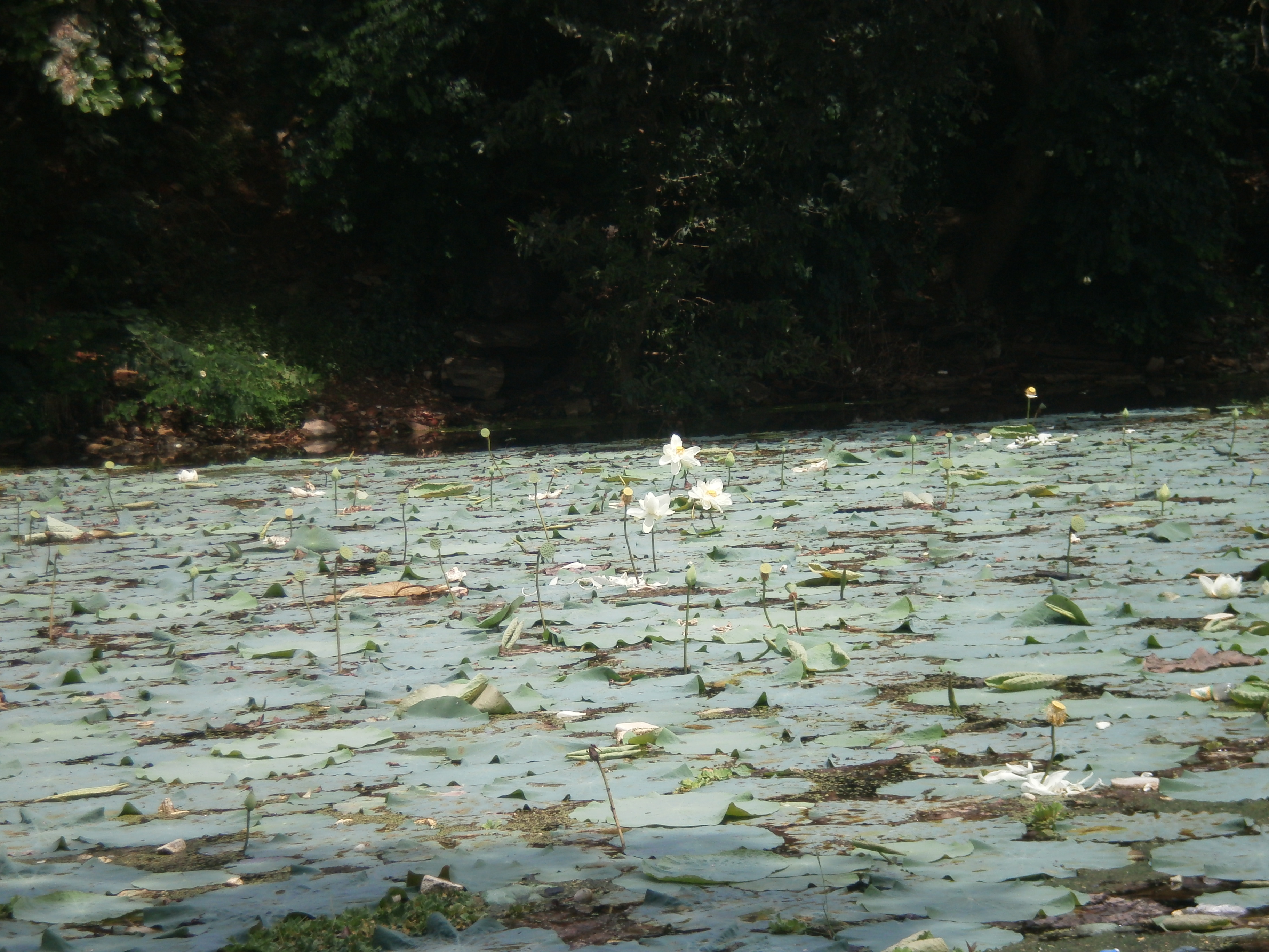 White Lotus in Lake. The image shows all parts of Lotus, including Leaves, Buds, Flowers, Seed Heads.